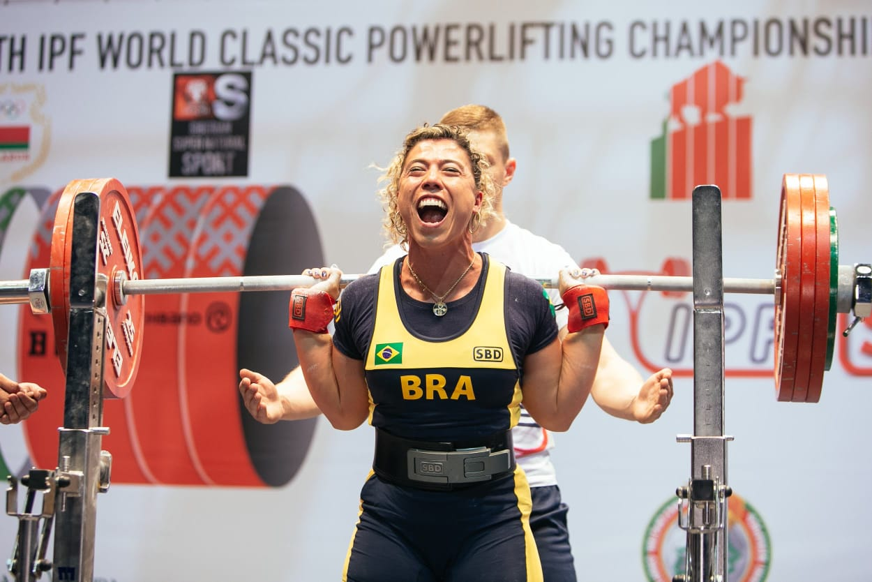 Powerlifting World Championship 2017 - Minsk Belarus